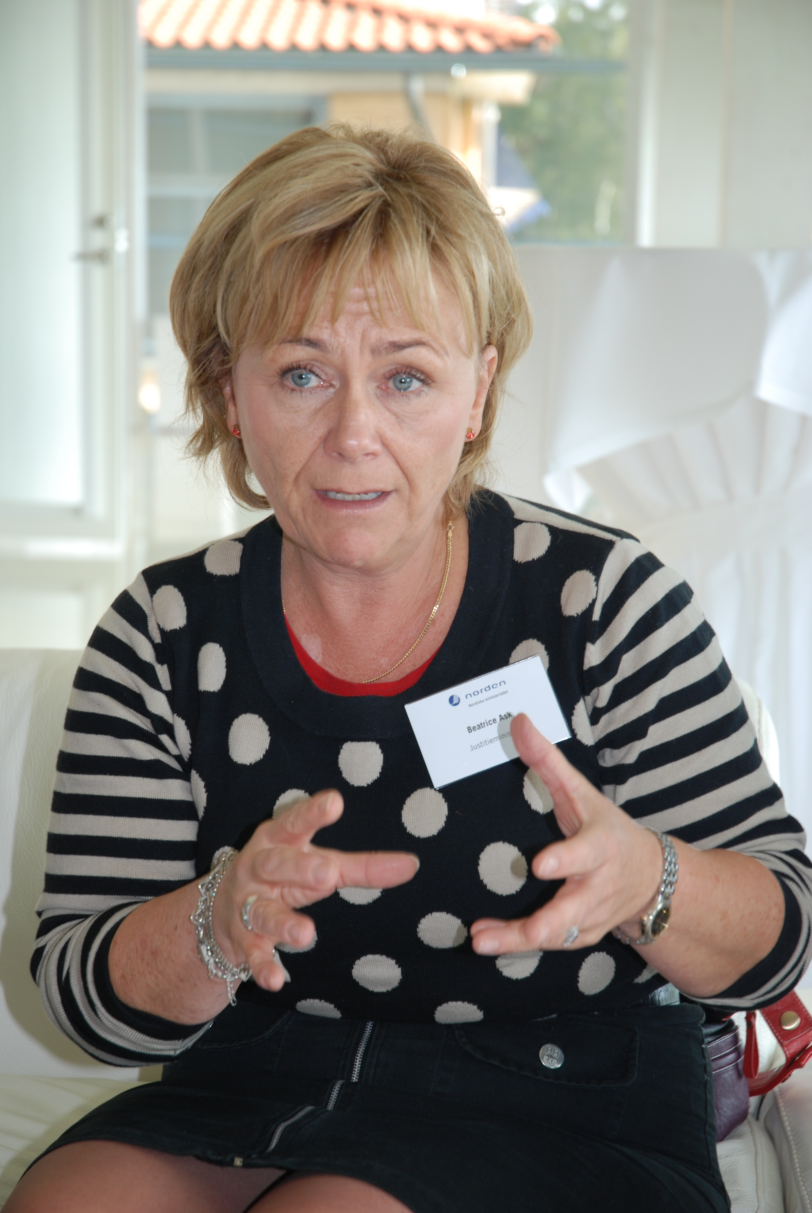 Sveriges justitieminister Beatrice Ask Keywords: Beatrice Ask